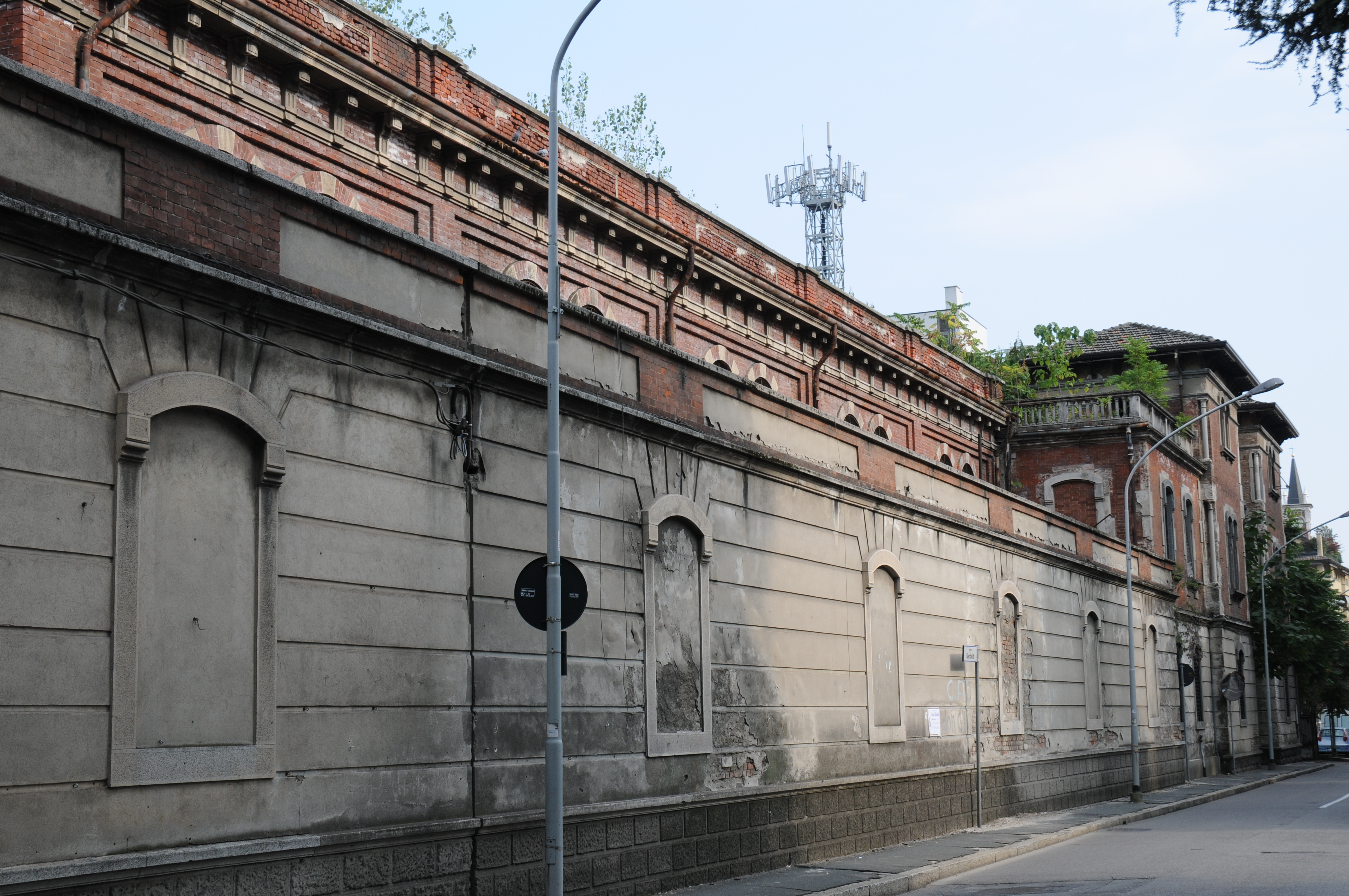 Ancient Cotton Mill Bernocchi in Legnano (Italy)